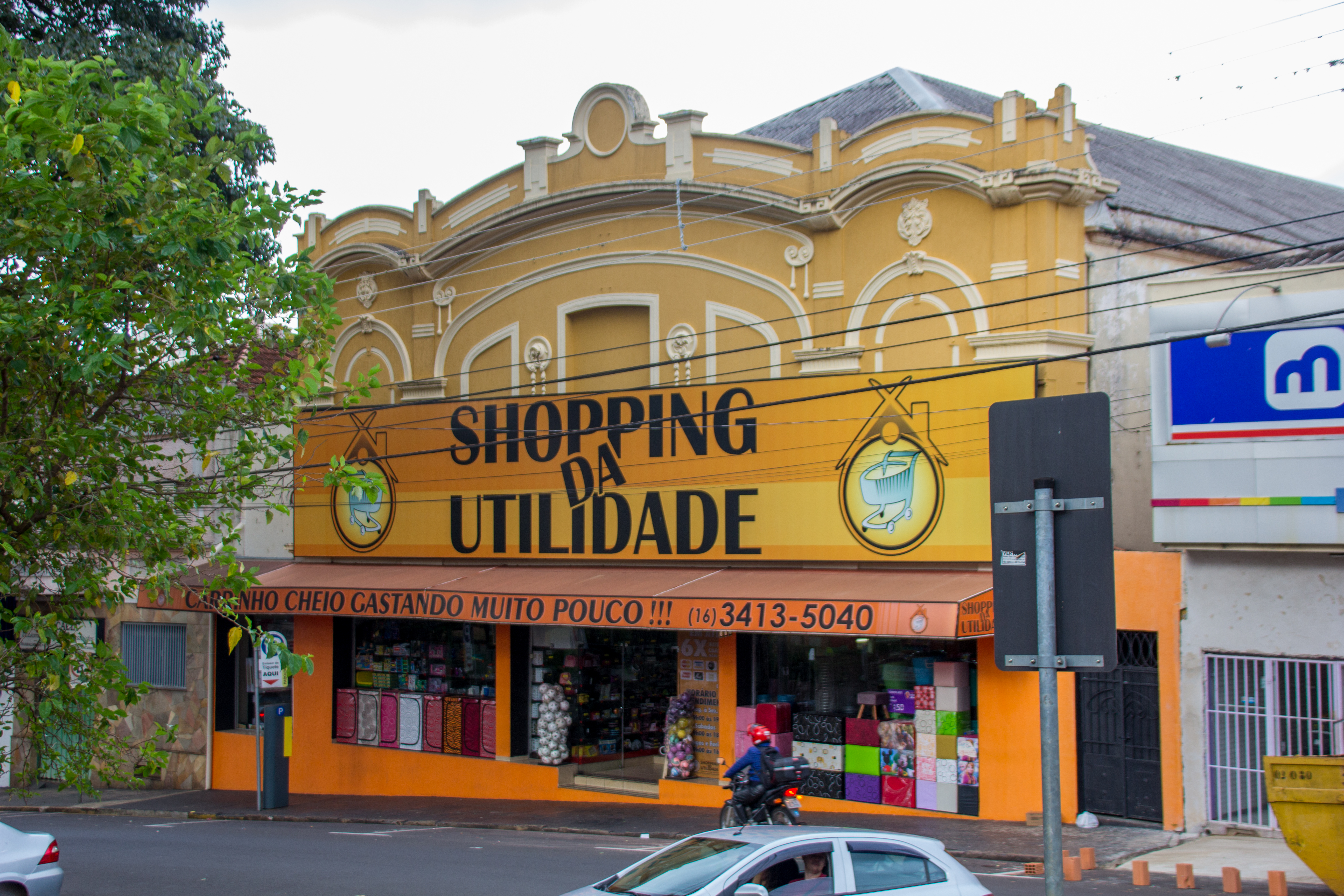 At São Carlos, Brazil